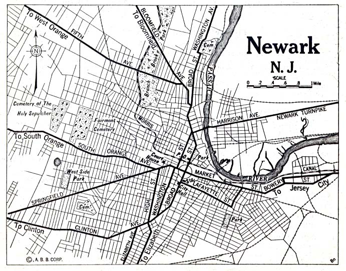 Map of Newark, NJ, USA